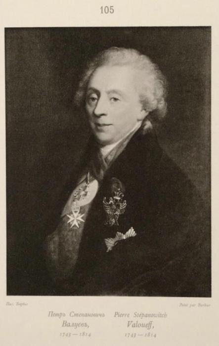 Petr Stepanovich Valuev, 1743-1814